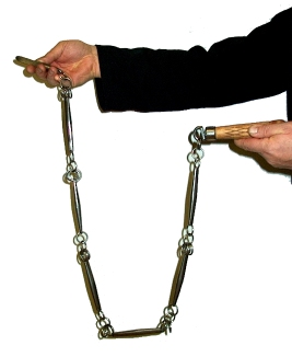 Chinese chain whip (KAU SIN KE). Photo taken by DrHaggis on 7NOV02.